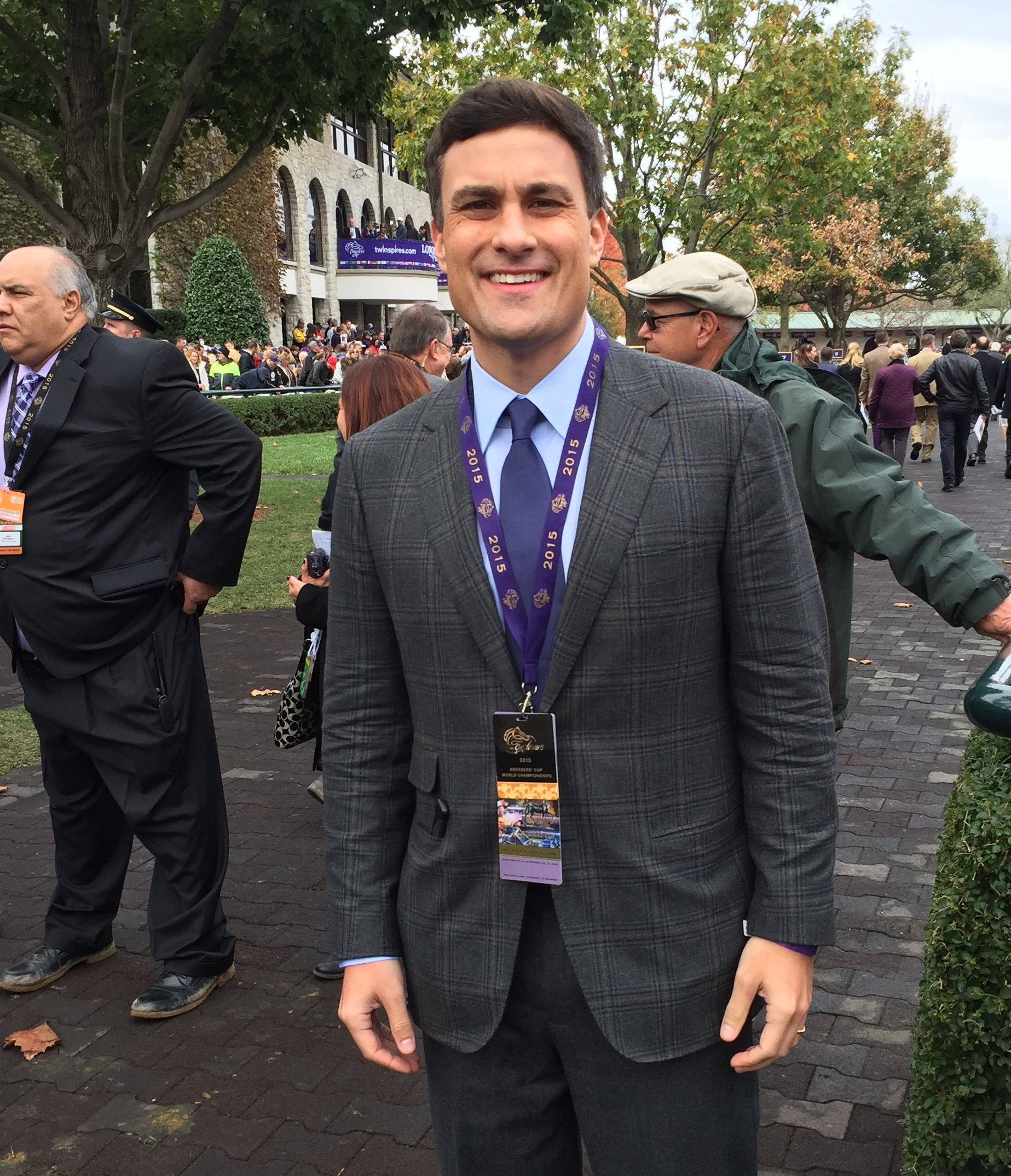 Nate Morris at 2015 Breeders Cup at Keeneland Race Course in Lexington, Kentucky